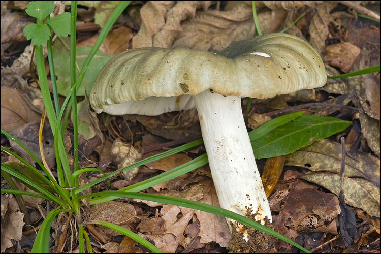 Russula heterophylla (Fr.) Fr. Image location: Bovec basin, East Julian Alps, Posočje, Slovenia Code: Bot_455/2010_DSC4550 Habitat: Mixed forest, deciduous trees dominant, nearly flat terrain, cretaceous clastic rock (flysh) bedrock, in shade, partly protected from direct rain by tree canopies, average precipitations ~ 3.000 mm/year, average temperature 8-10 deg C, elevations 430 m (1.400 feet), alpine phytogeographical region. Substratum: forest soil, rotten leaves, some needles and wood debris. Place: West of Bovec, near the trail from station A of the Kanin cable car to village Plužna, East Julian Alps, Posočje, Slovenia EC Comments: Growing solitary, pileus diameter about 8 cm. Spore print white. Nikon D700 / Nikkor Micro 105mm/f2.8 Recognized by sight Used references: (1) Personal communication. Determined by Mr. Anton Poler. (2) R.M. Daehncke, 1200 Pilze in Farbfotos, AT Verlag (2009), p 858. (3) M.Bon, Parey’s Buch der Pilze, Kosmos (2005), p 56 (4) A. Poler, Veselo po gobe, Mohorjeva druba, Celovec (in Slovene), (2002), p 158. (5) . Based on microscopic features: Spore dimensions: 5,7 (SD=0,4) x 4,8 (SD=0,4) micr., Q = 1,17 (SD=0,07), n = 30 . Motic B2-211A, magnification 1.000 x, oil, in water. Based on chemical features: Taste indistinctive, smell mild but distinctive on ?? For more information about this, see the observation page at Mushroom Observer.